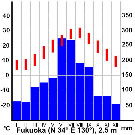 Climate diagram of Fukuoka, Japan. Map based Image:ClimateTemplate.PNG Source:JMA data